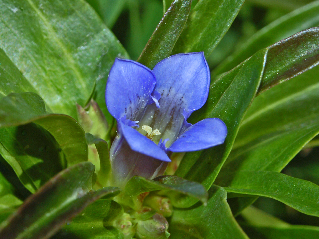 Gentiana cruciata - Pragelato, Torino, Italy